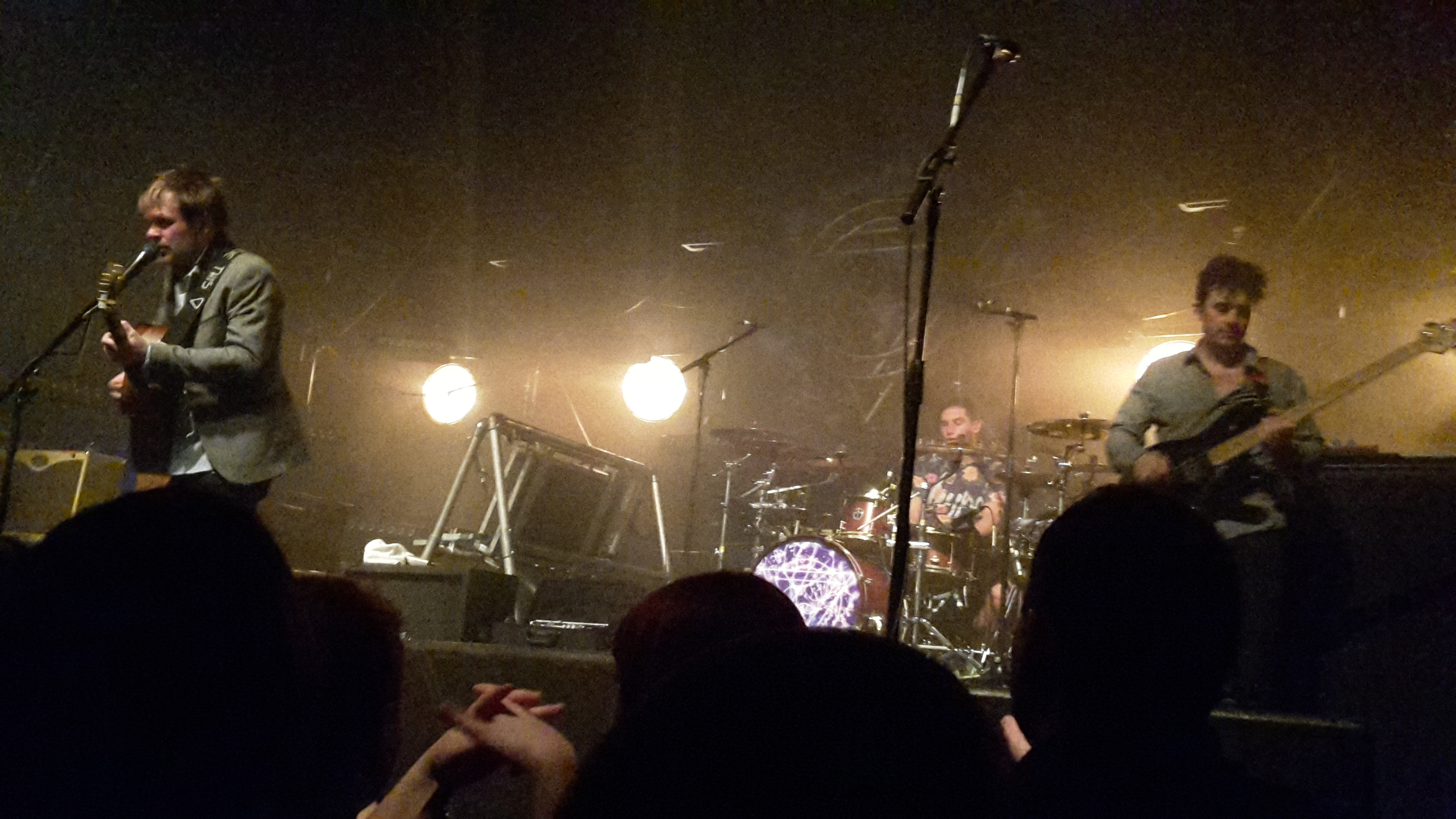 Enter Shikari giving a concert at La Cigale in Paris, February 2nd 2015